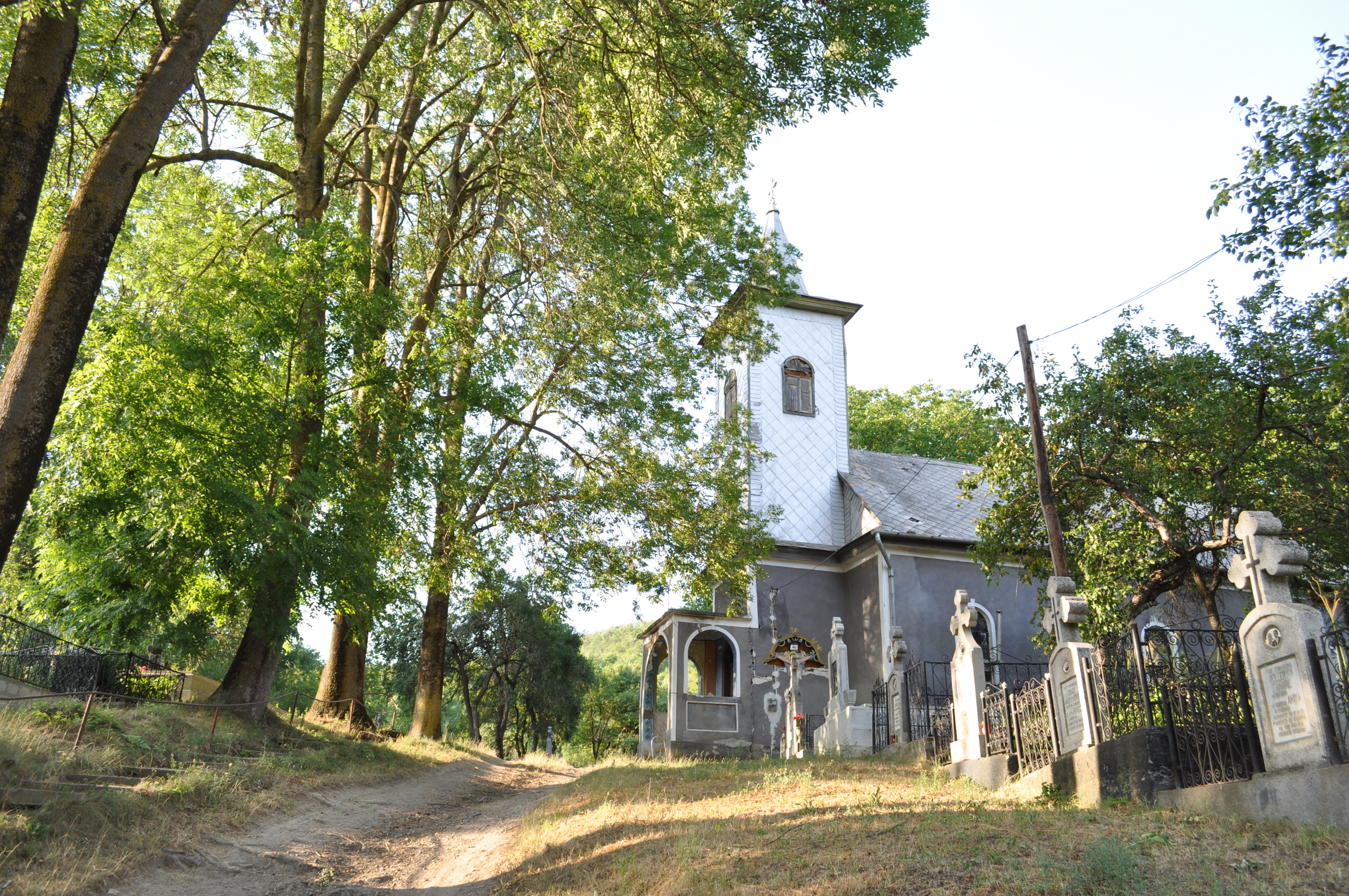 Orosfaia, Bistrița-Năsăud county, Romania